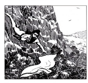 'कल्याणा, छाटी उडाली'.